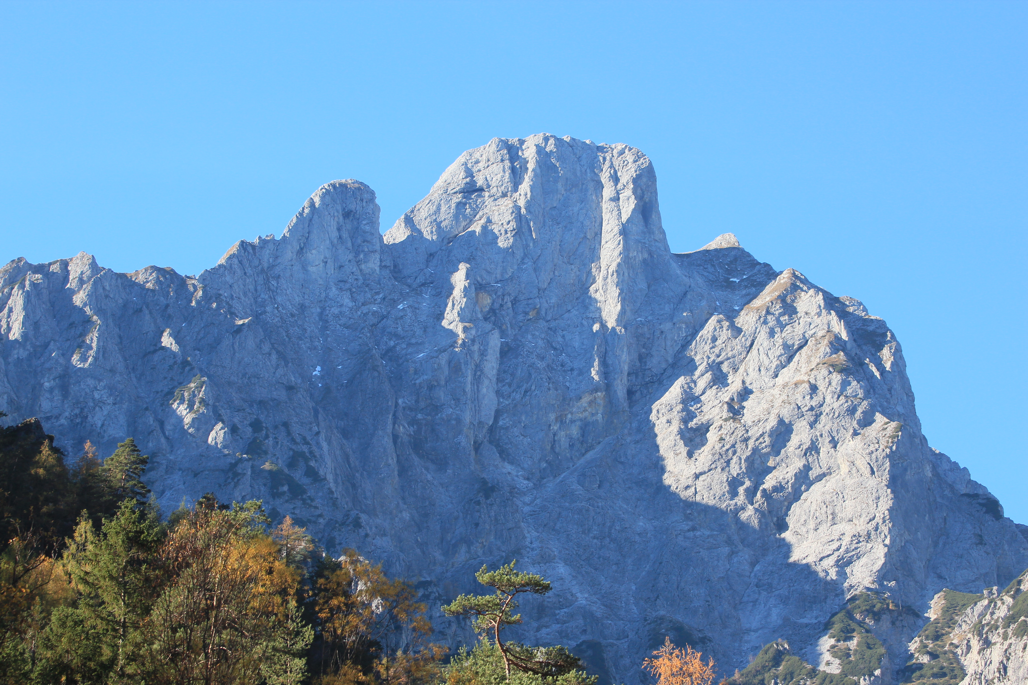 Admonter Reichenstein from Johnsbach.